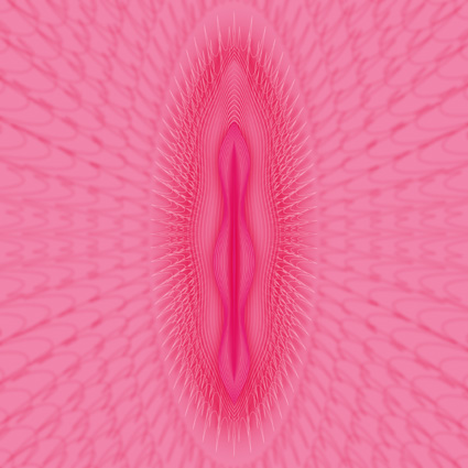 Maurycy Gomulicki (b. 1969), Polish painter and performer